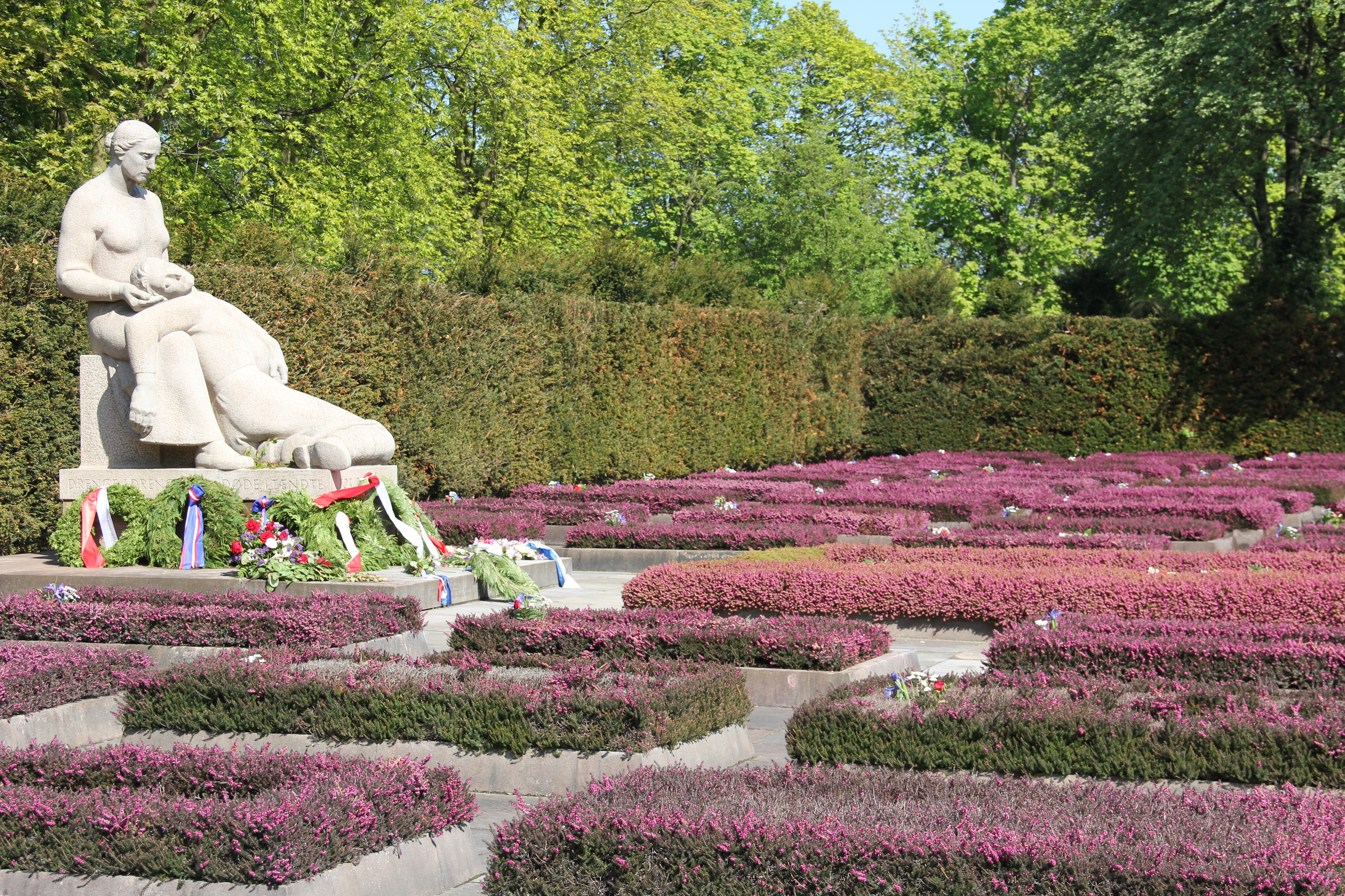 Mindelunden Monument